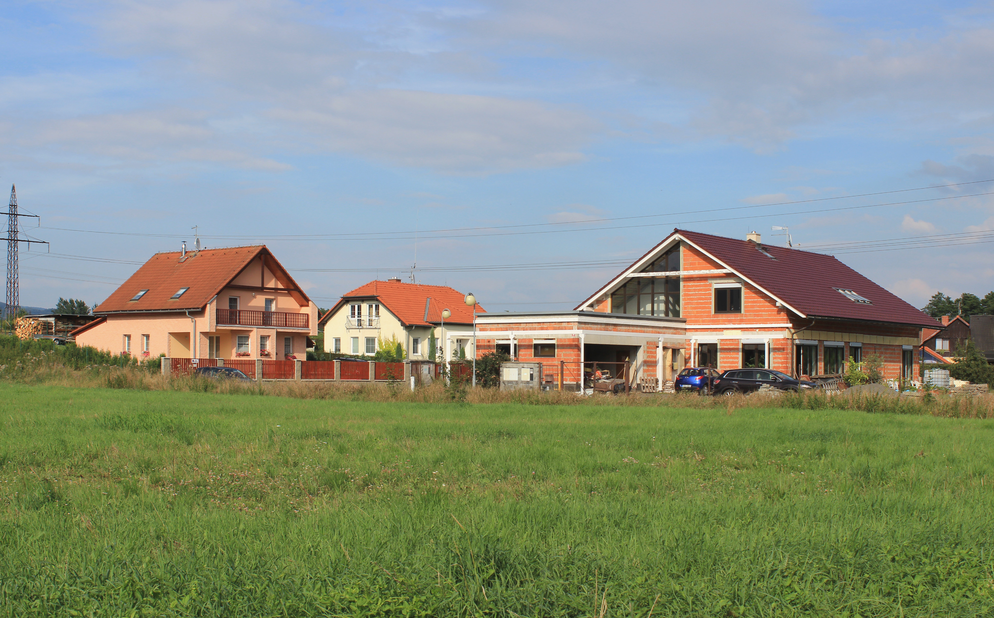 New housing in Kfely, part of Ostrov, Czech Republic.